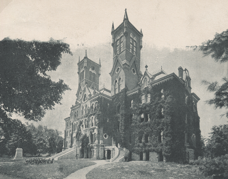 Also known as Main Hall and College Hall, this is Kirkland Hall before the fire